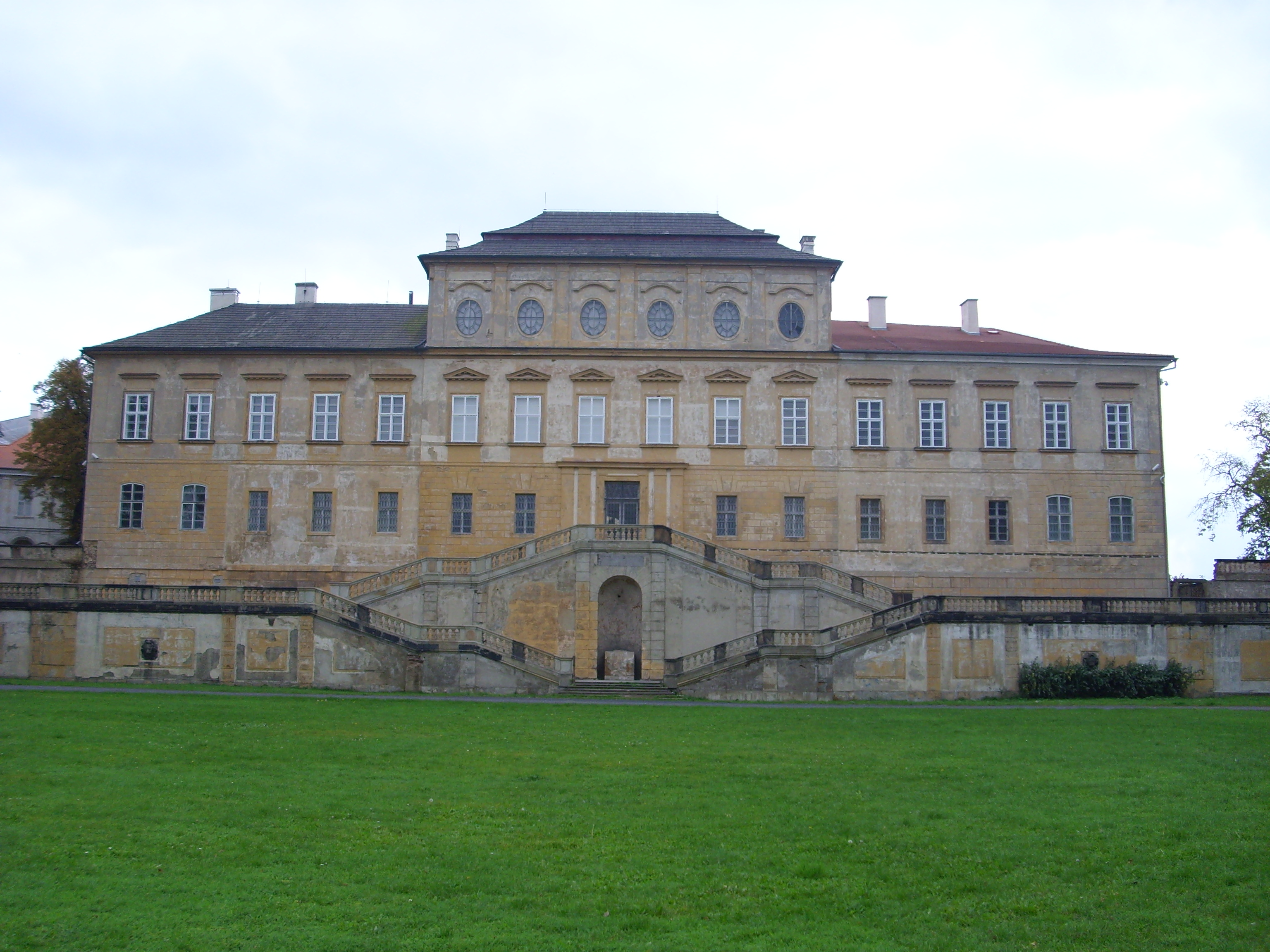 Castle in Duchcov in Czech Republic